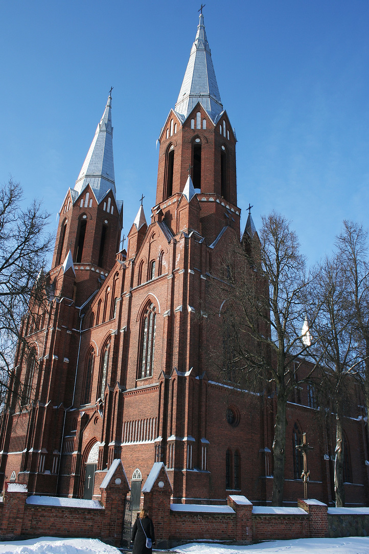 The church in Anykščiai, the tallest in Lithuania